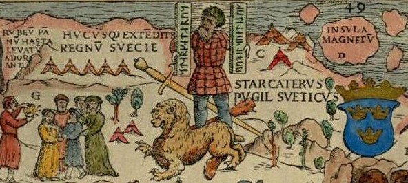 Part of the Carta Marina of 1539 by Olaus Magnus, depicting the location of magnetic north vaguely conceived as "INSVLA MAGNETV[M]" (Latin for "Island of Magnets") off the modern city Murmansk. The man character holding the rune staffs is the Norse hero Starkad. The rune staffs are inscribed "Starcaterus" (left) and "pugil Sueticus" (right) in runes. The inscription "STARCATERVS PVGIL SVETICVS" (Starcater Swedish fist fighter) is repeated in Latin characters.